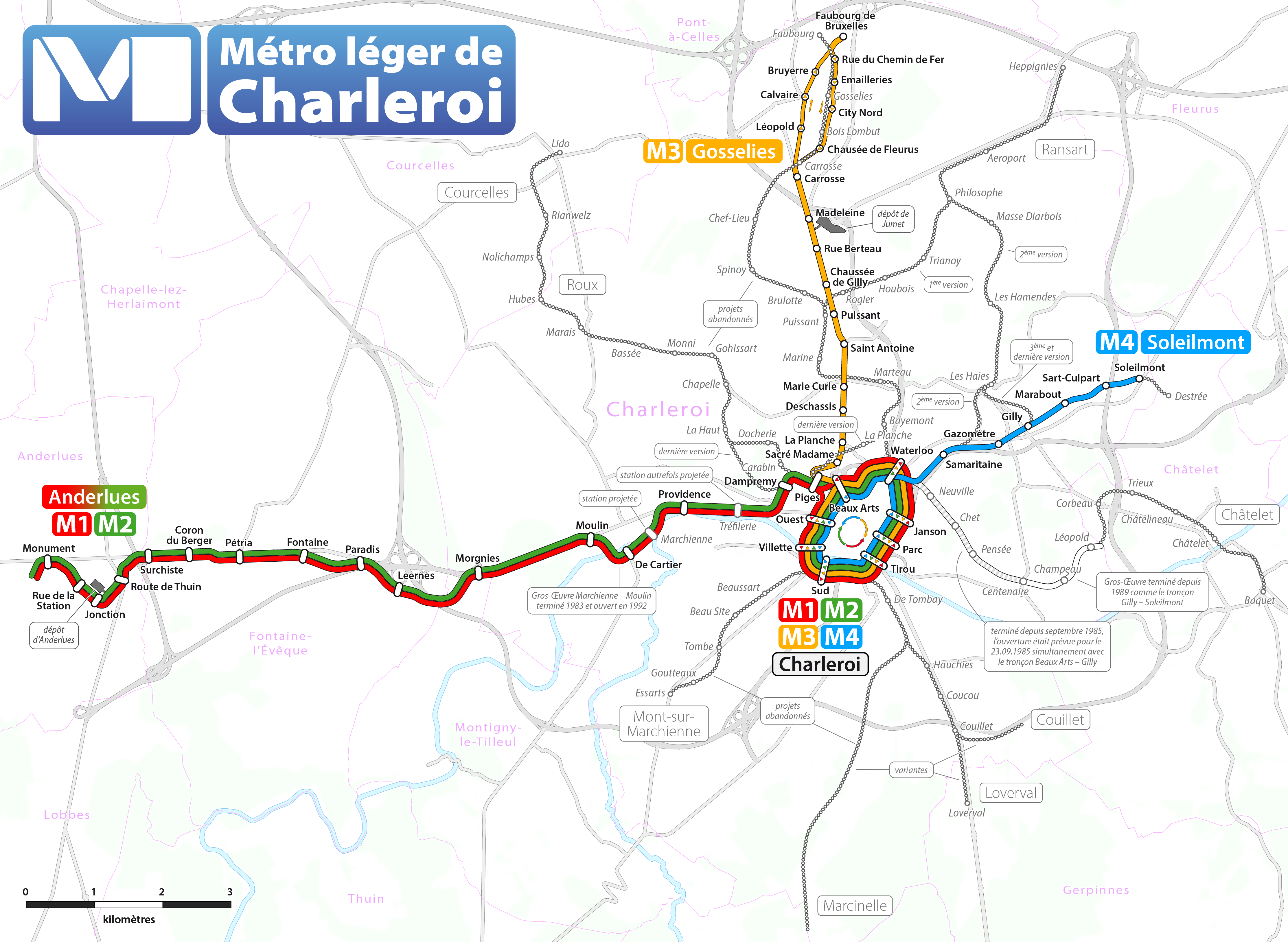 Map: Charleroi premetro network